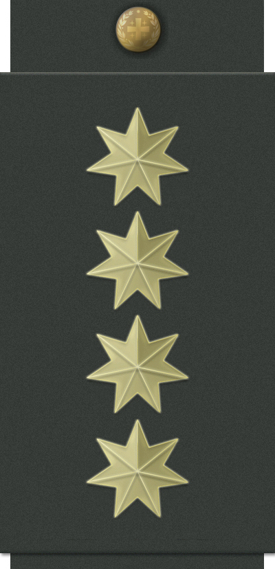 GAF army captain (official alternative)